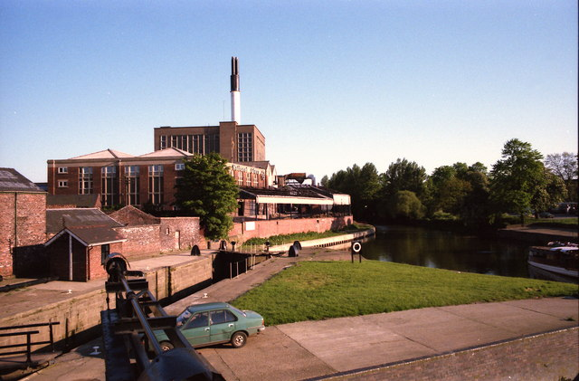 Foss Locks and Sluice In the immediate foreground is the gantry that controls the Sluice, to the left in the distance is the Redfern National Glass works (now demolished), the works were oil fired, barges from Whitakers in Hull would fuel the works and would discharge the oil from this basin. for more details about the tankers